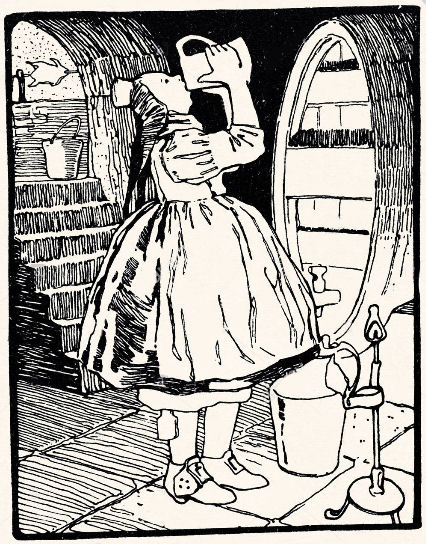 Illustration for 'Clever Gretel' by Walter Crane from 'Grimm's Fairy Tales ' (1890)